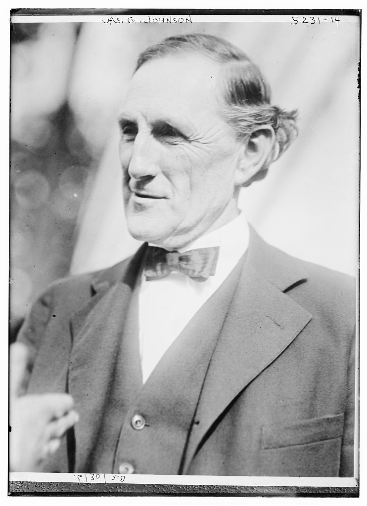 James Granville Johnson Jr. circa 1920